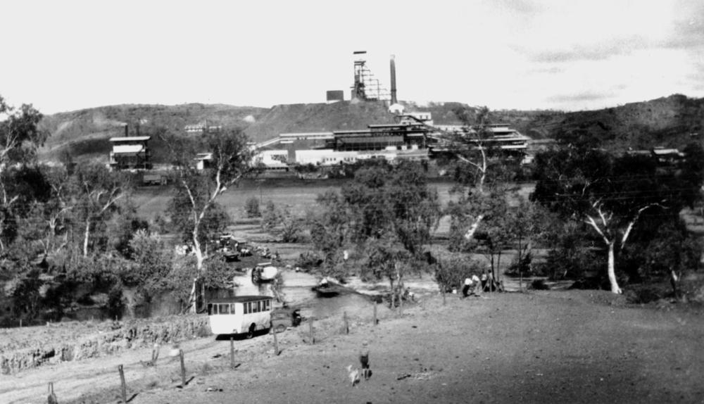 Smelter plant outside the town of Mount Isa, 1932 View of the smelter from town (Mt. Isa). Company bus is making its way along the dirt road.